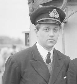 British Mtb's Shoot Up Nazi Convoy. 11 March 1943, Yarmouth, British Light Naval Forces Attacked An Enemy Convoy Off the Dutch Coast in the Early Morning of 10 March 1943. Led by Lieut Kenneth Gammell, Rnvr, of Bridlington. Motor Torpedo Boats Fought a Sharp Action and Left a German Tanker, a Minesweeper and a "flak" Trawler on Fire. Sub Lieut the Hon John Vavasseur Fisher, RNVR.